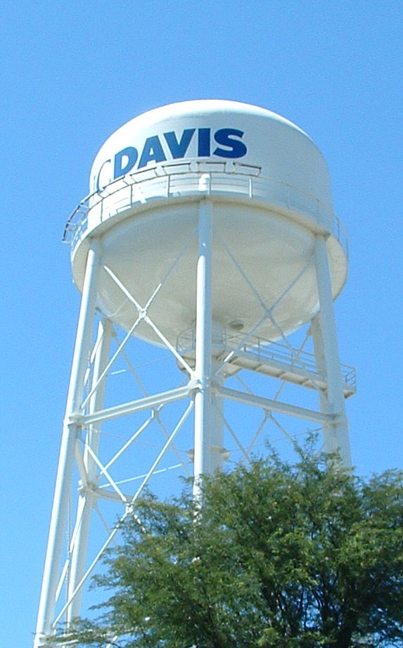 UC Davis Water tower, cropped with photoshop